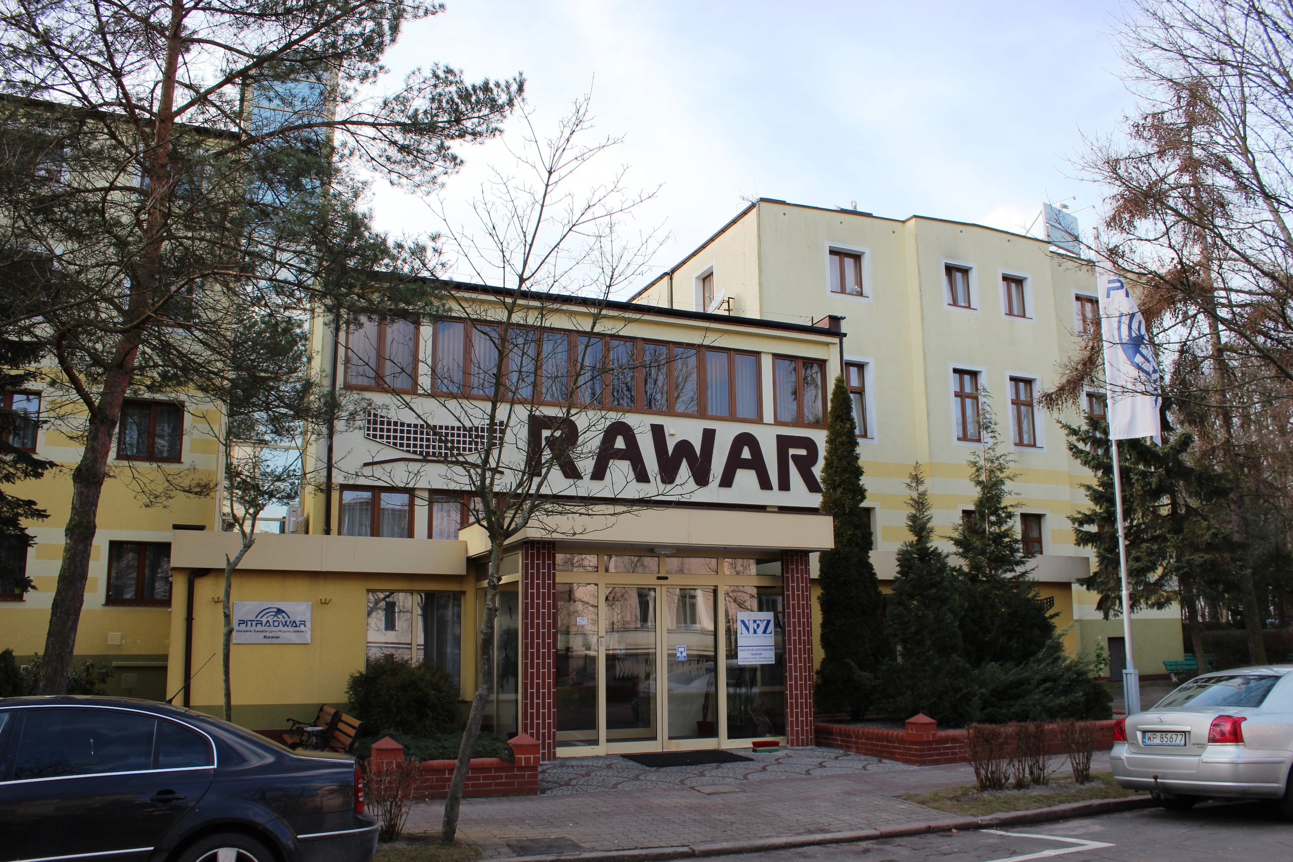 Rawar Sanatorium in Kołobrzeg